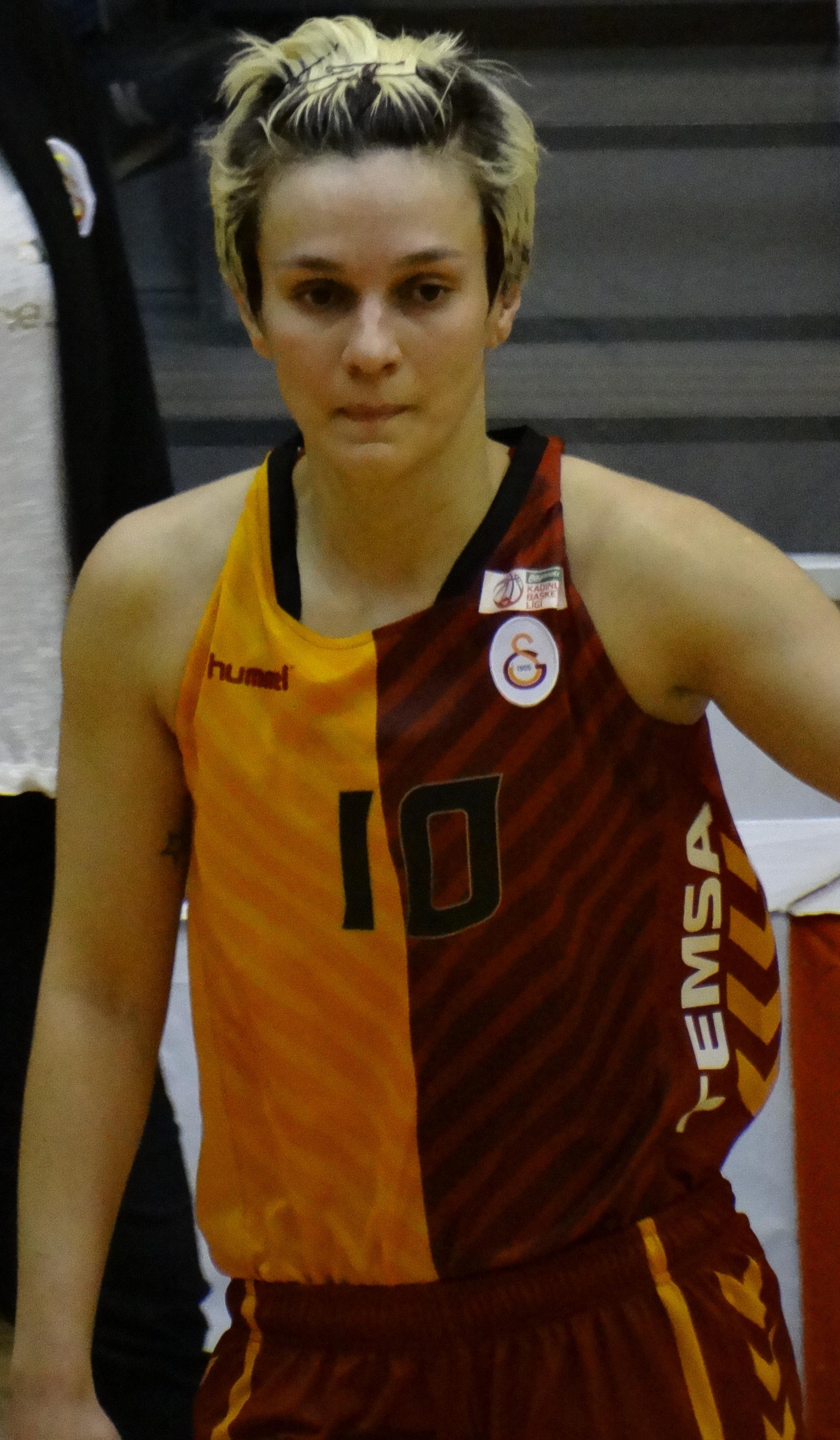 Işıl Alben Fenerbahçe Women's Basketball vs Galatasaray Women's Basketball TWBL 20180408